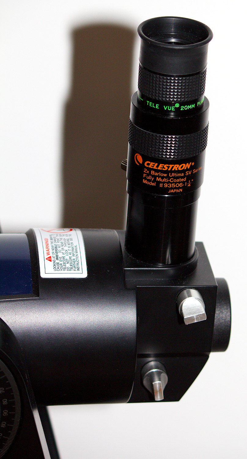 Celestron Ultima 2X Barlow Lens 1.25" and Tele Vue Plossl 20mm